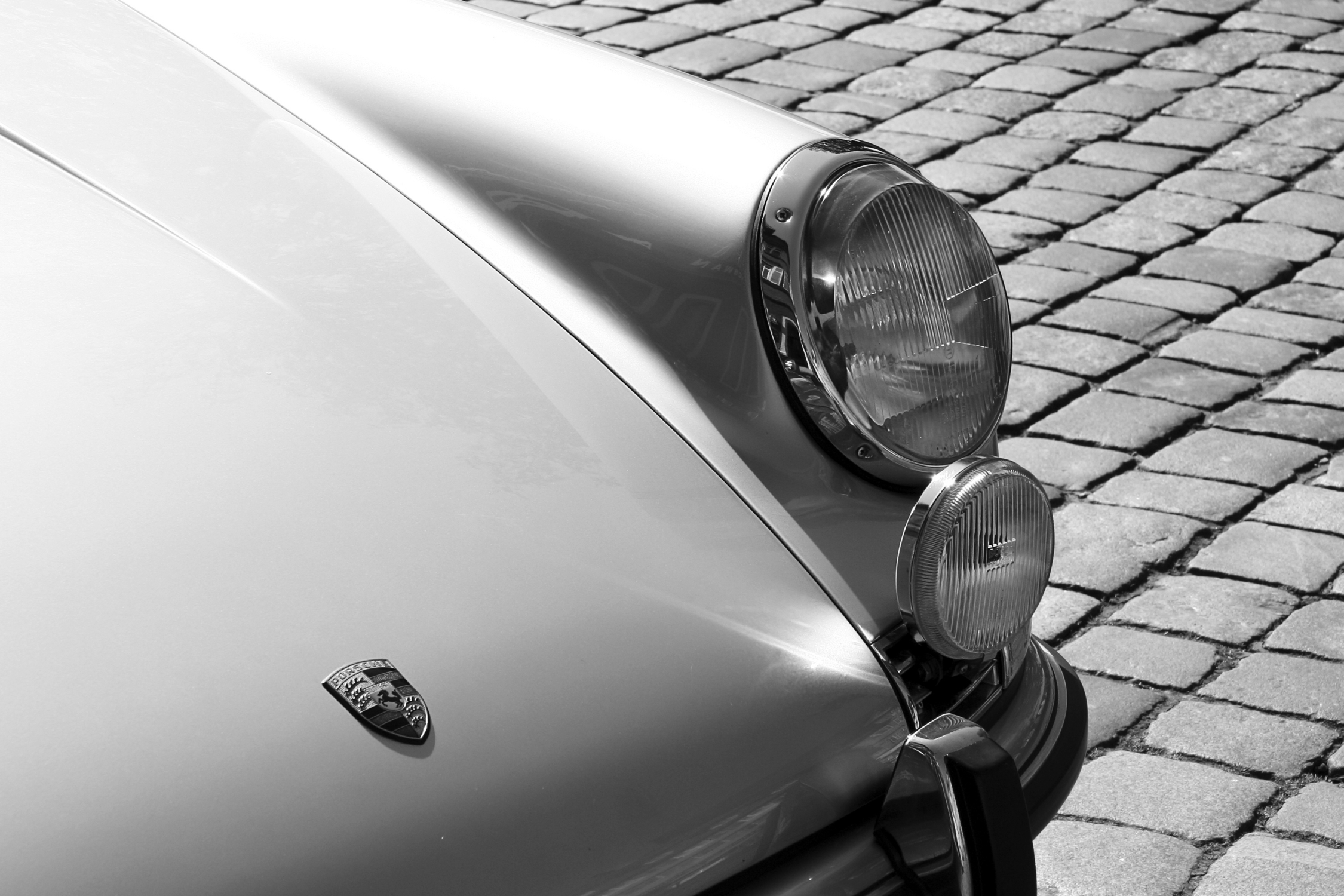 Detail of a Porsche 911 car